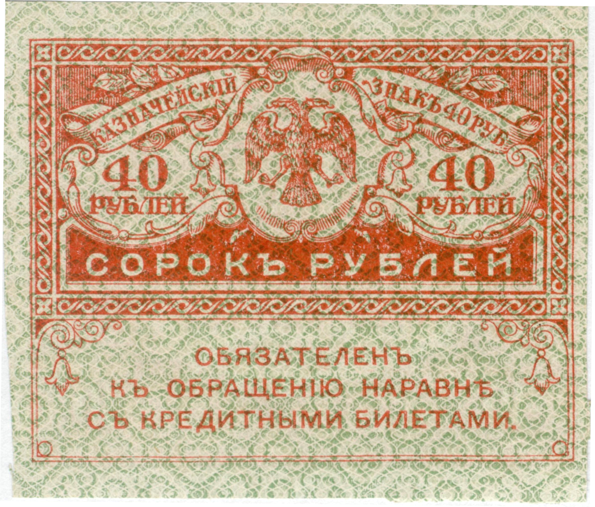 'Kerenki' of Russia, 40 roubles. Face. Natural colours